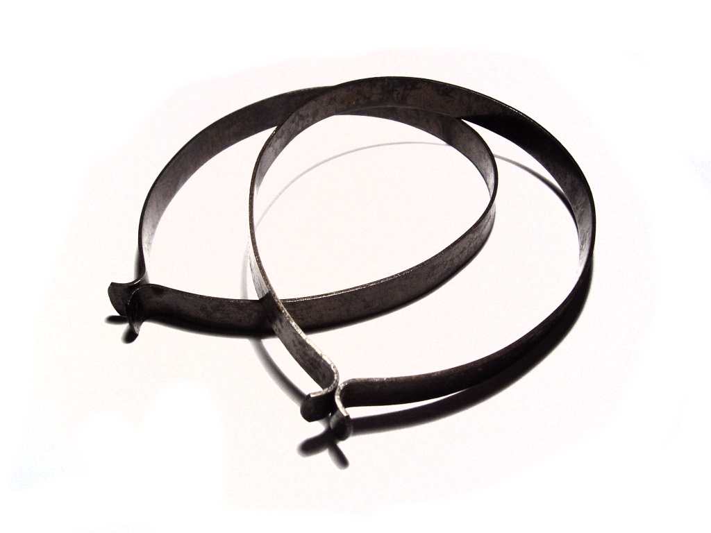 "Trouser Clips" by Richard Wheeler (Zephyris) 2007.